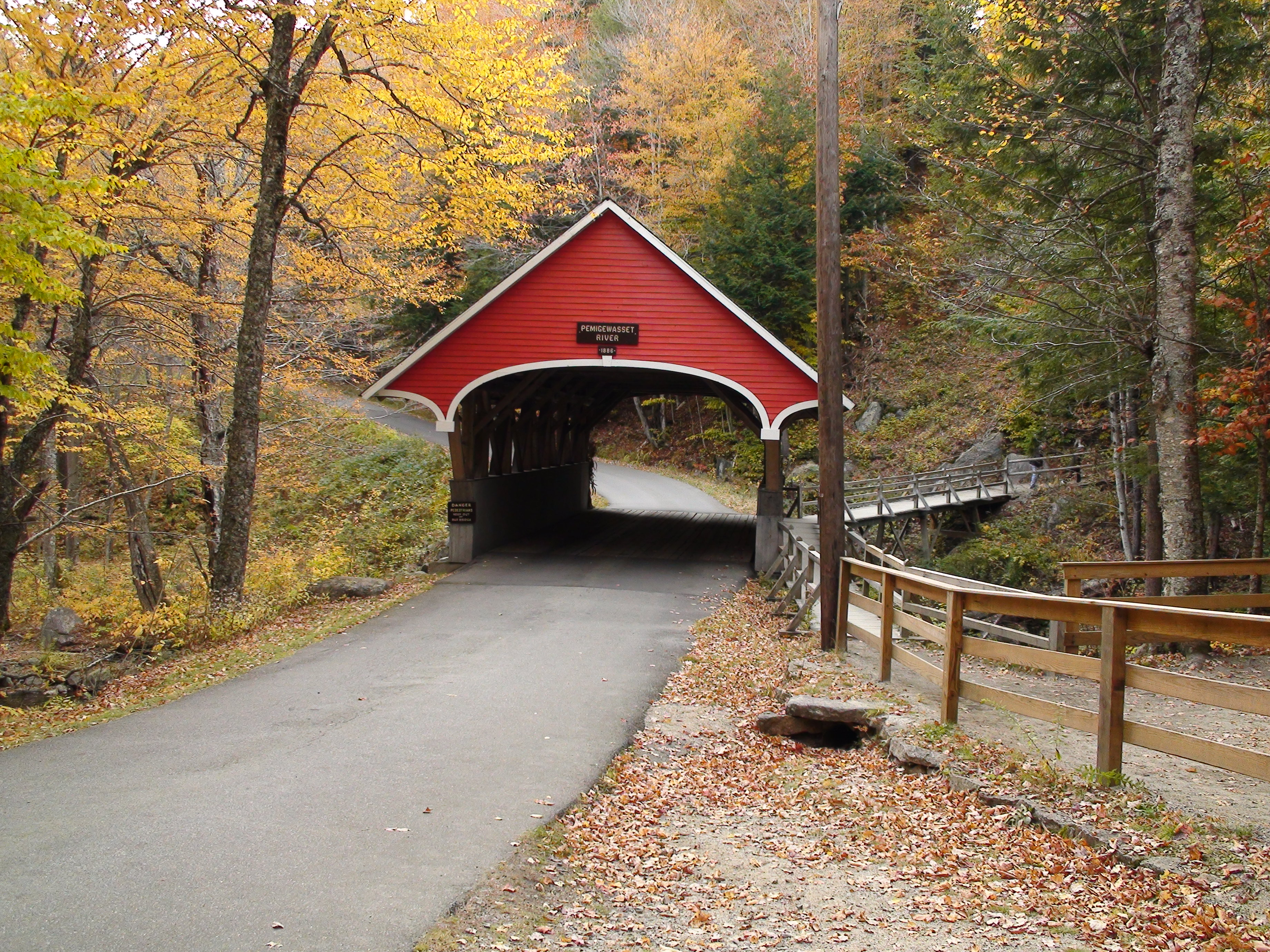 Franconia Notch State Park: Pemigewassett covered bridge